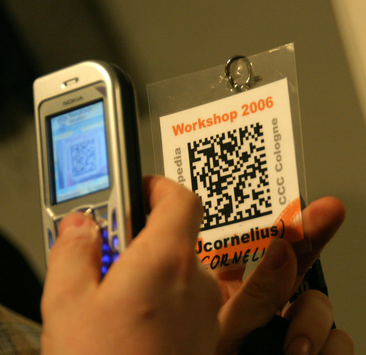 Checking out Semapedia tags on workshop name tags at Wikipedia:Workshop Köln date: 2006-04-07 author: Elke Wetzig (elya)